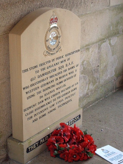 Memorial to 617 The Dambuster Squadron Derwent Dam was used by 617 Sdn to practice their low flying techniques and the use of Barnes Wallis bouncing bombs